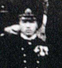 Oota Shichihei is an Imperial Japanese Navy Rear Admiral